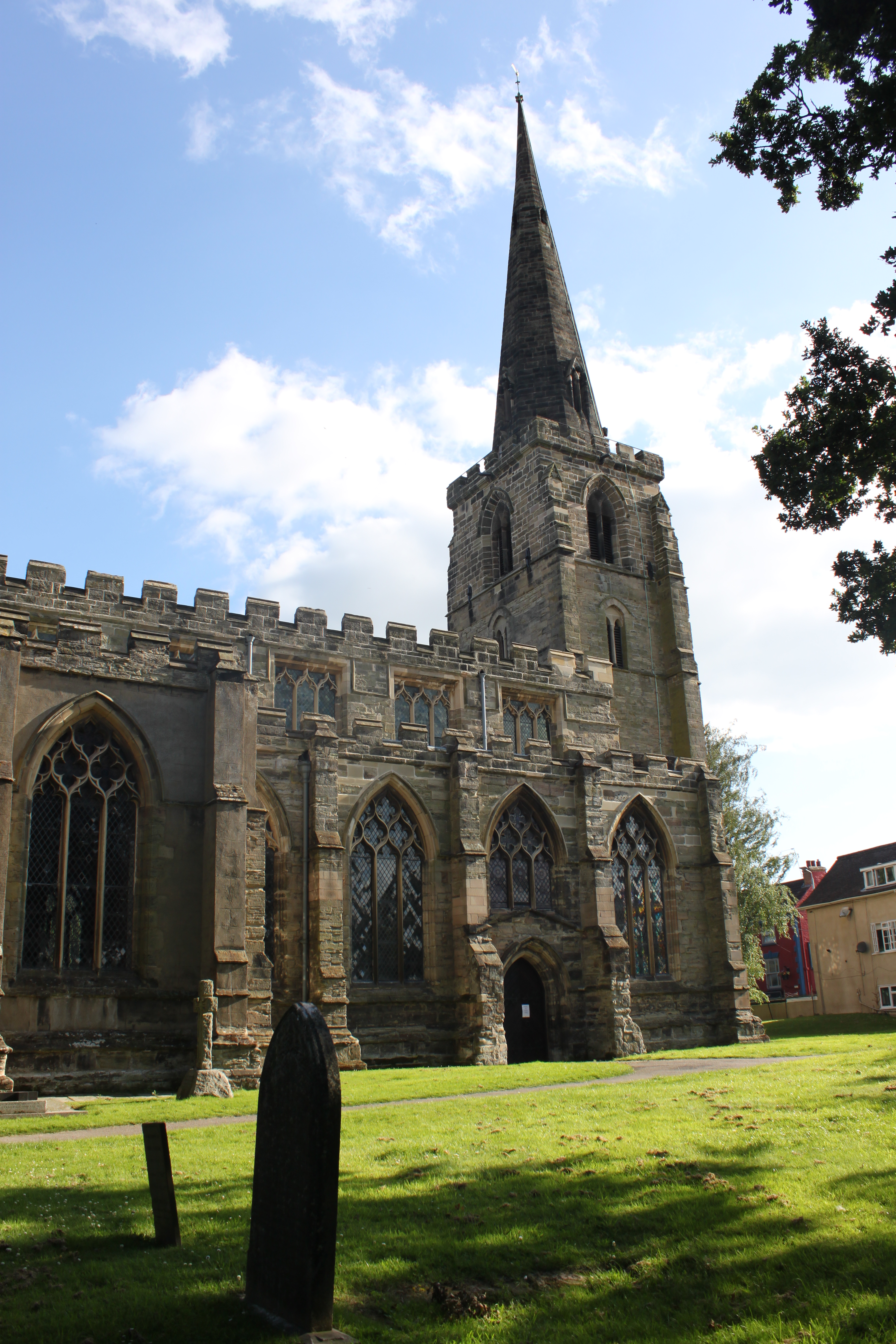 St Andrew's Parish Church in Kegworth, Leicestershire was largely built in 1370 but the tower base dates earlier, from 1250. The church is the main landmark of the village and is situated next to the commercial center. This view is of the northern side.